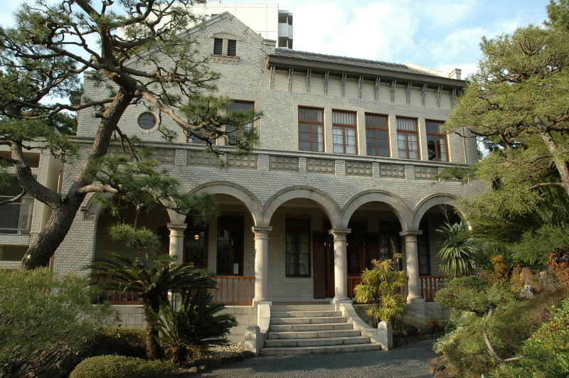 Vacation house. completion in 1918, owned by Denbei Kamiya., Inage Ward